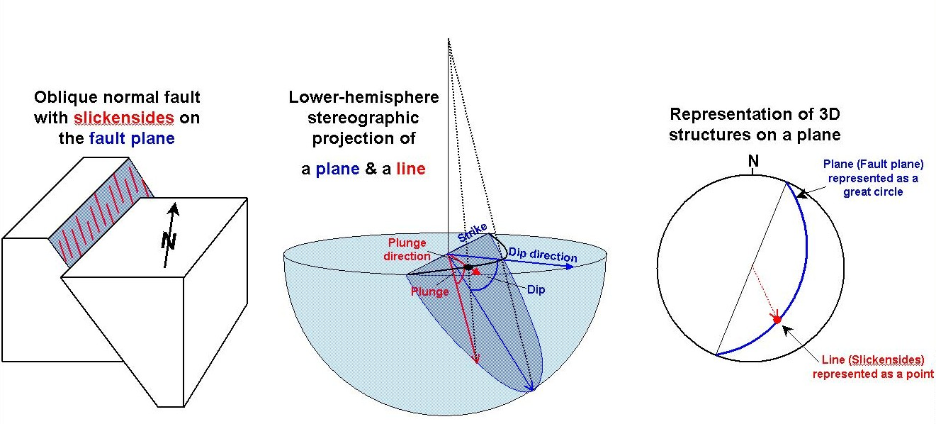 Diagram attempting to show the use of lower hemisphere stereographic projection in structural geology using the example of a fault plane and a slickenside lineation observed within the fault plane.